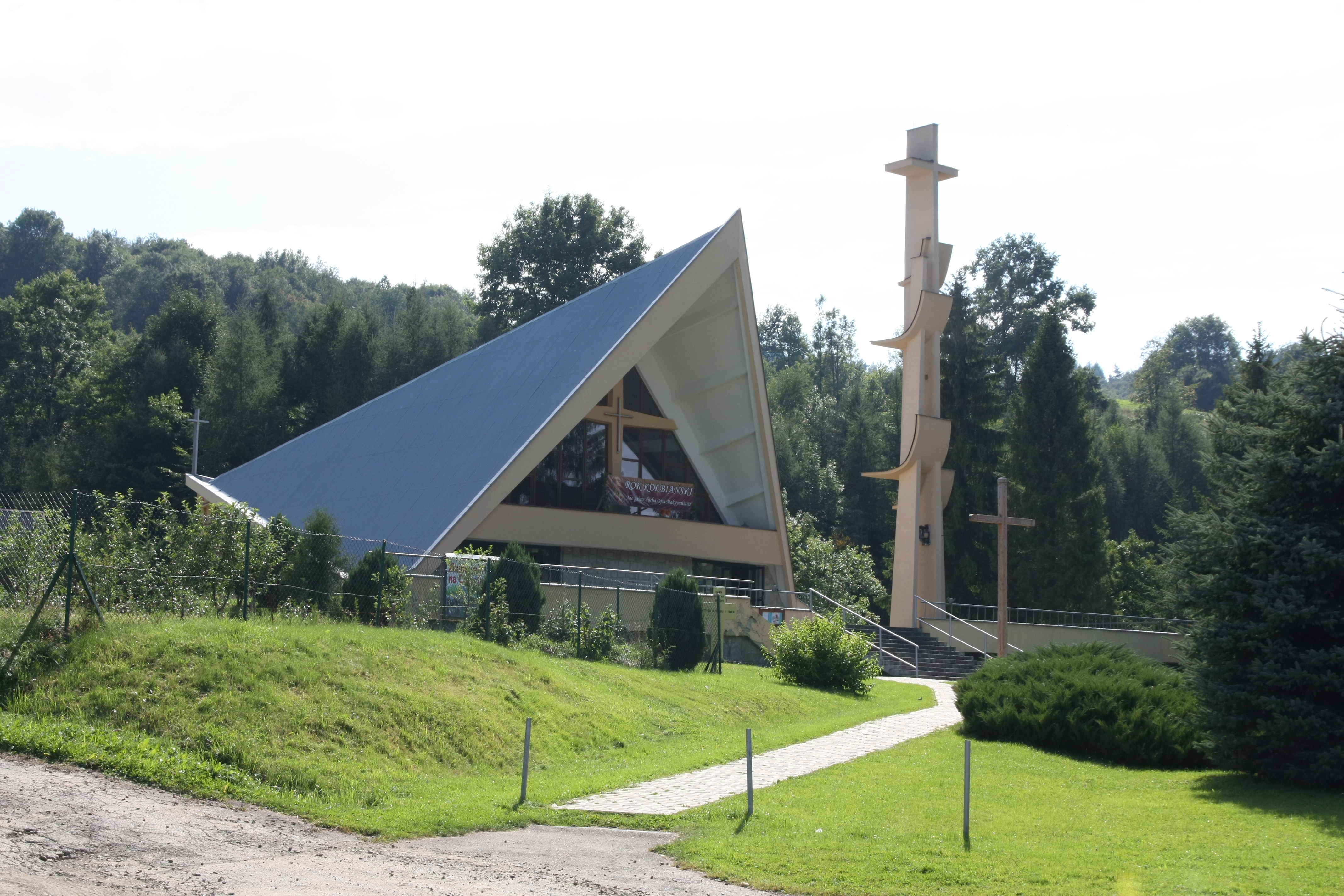 Church in Wołkowyja.